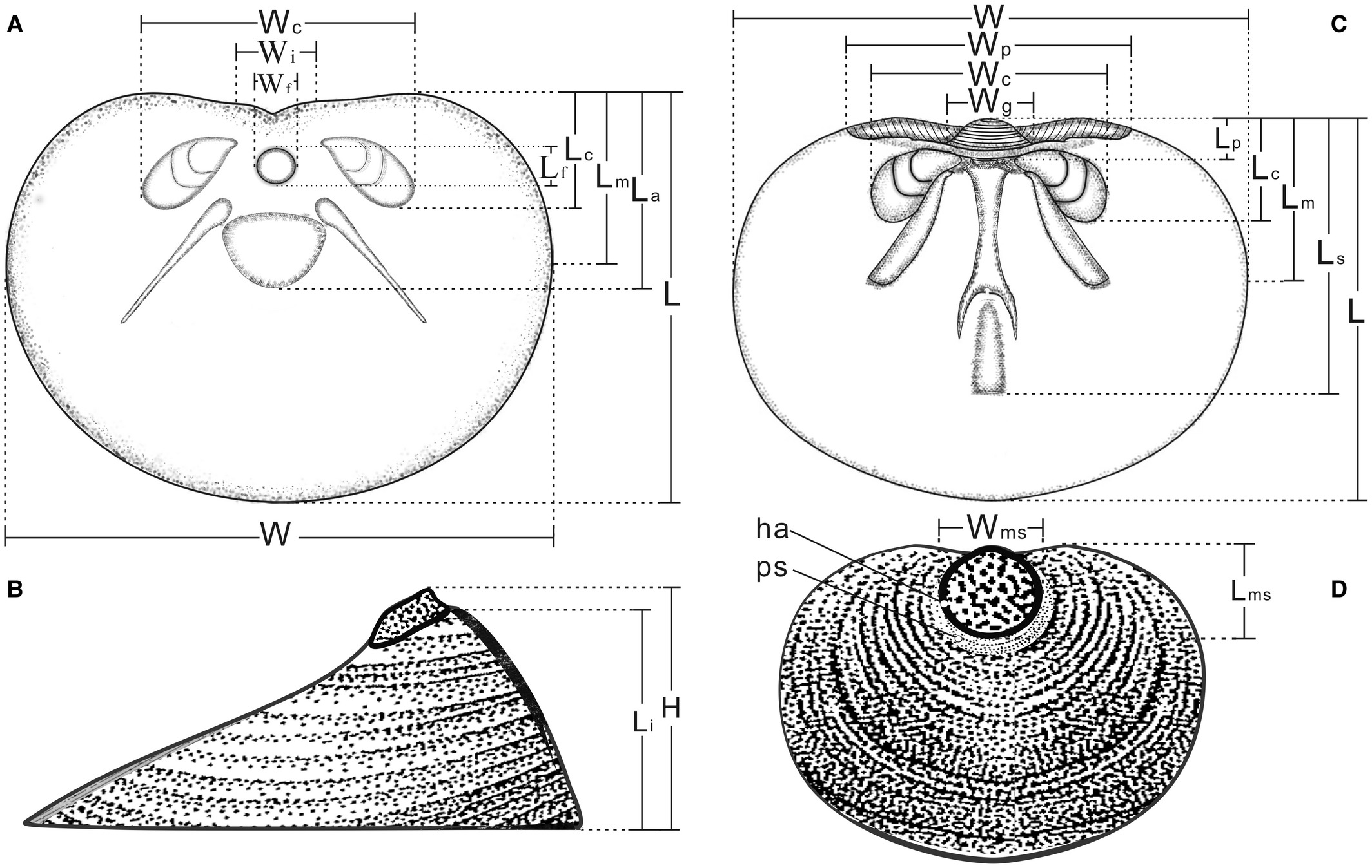 FIG. 2. Schematic reconstruction of Eohadrotreta zhenbaensis at ontogenetic stage T3, showing location of measurements in Figs 11–13. A–B, ventral valve; A, internal; B, lateral view. C–D, dorsal valve; C, internal; D, external view. Abbreviations: L, width; W, width; H, height of valve where not specified, and of elements: a, ventral apical process; c, cardinal muscle scars; f, pedicle foramen; g, dorsal median groove; i, ventral intertrough; m, at maximum width; ms, metamorphic shell; ps, post-metamorphic shell; p, dorsal pseudointerarea.